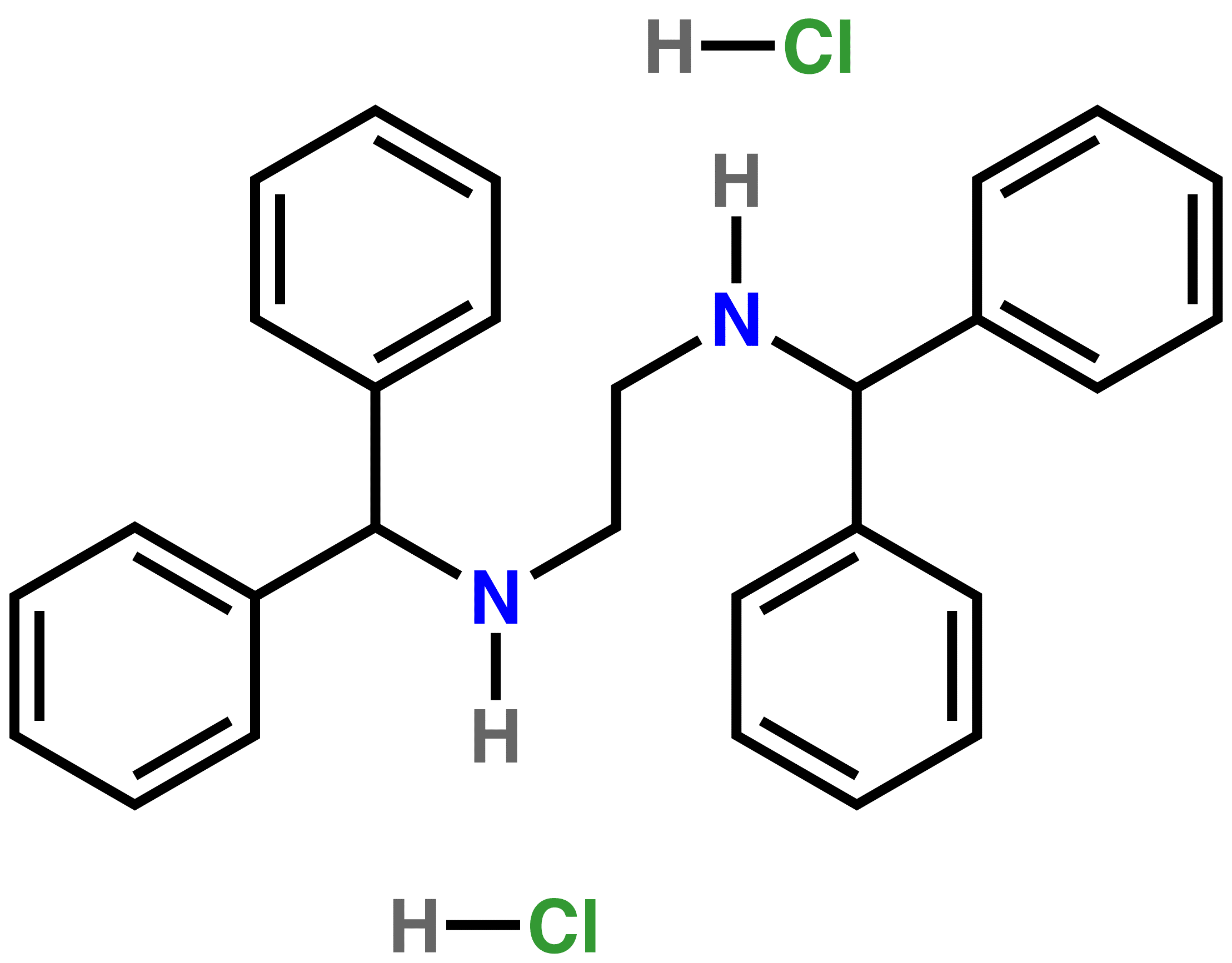 Chemical structure of the metabotropic glutamate receptor 7 agonist AMN082